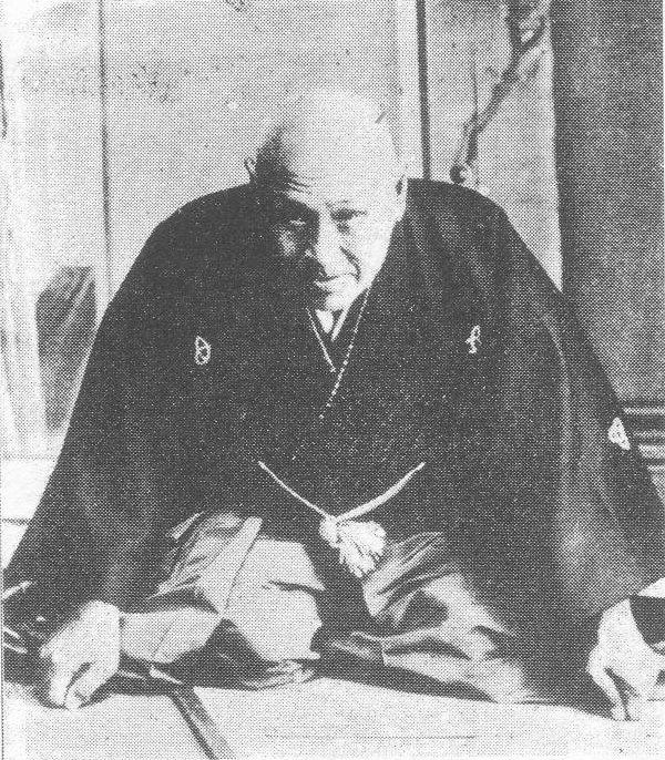 Bunji Katsura VII (Rakugoka).